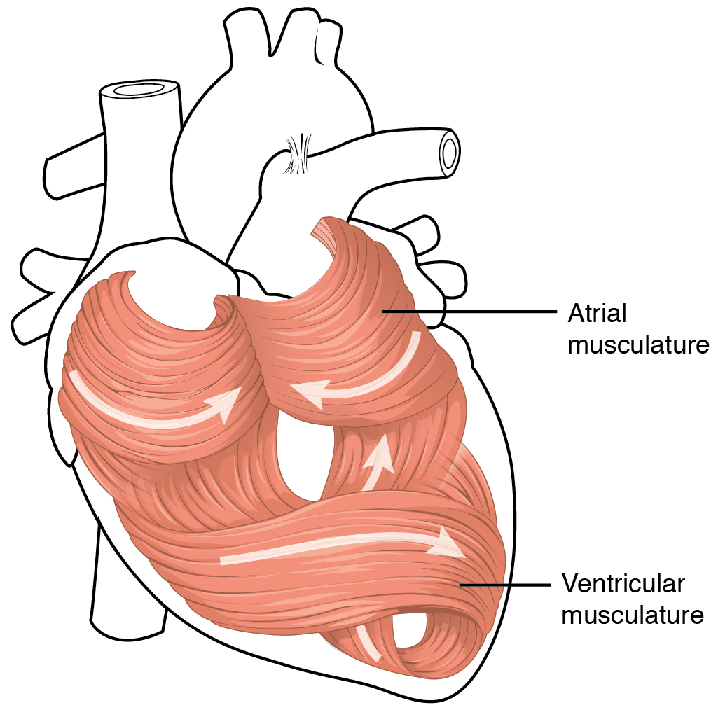 Illustration from Anatomy & Physiology, Connexions Web site. Jun 19, 2013.